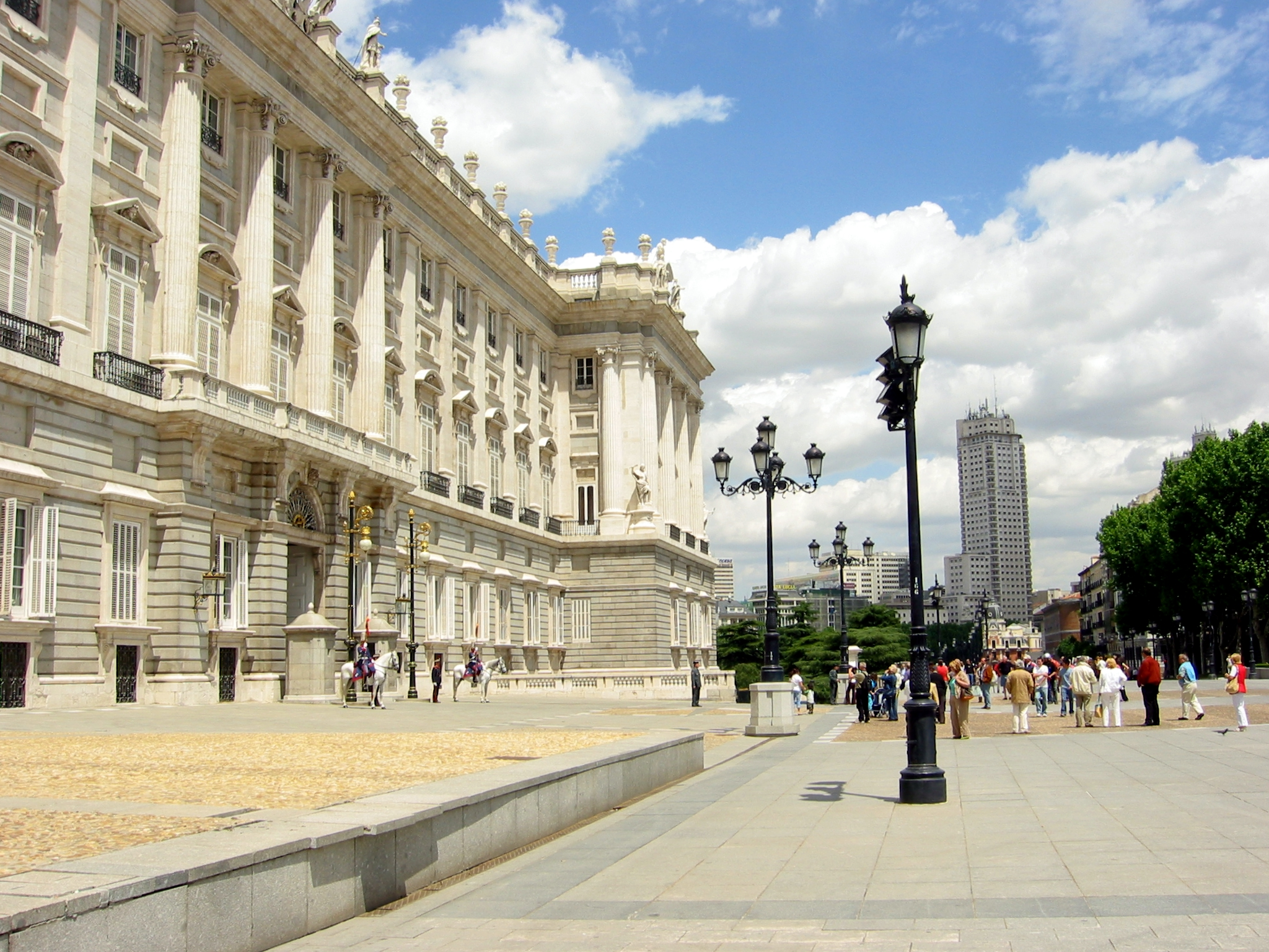 View from the pedestrian strecht of Calle de Bailén (street), beside Plaza de Oriente (square) in Madrid (Spain). At the left, the Royal Palace (1738–1764; 1778). In the background, the Torre de Madrid (skyscraper).